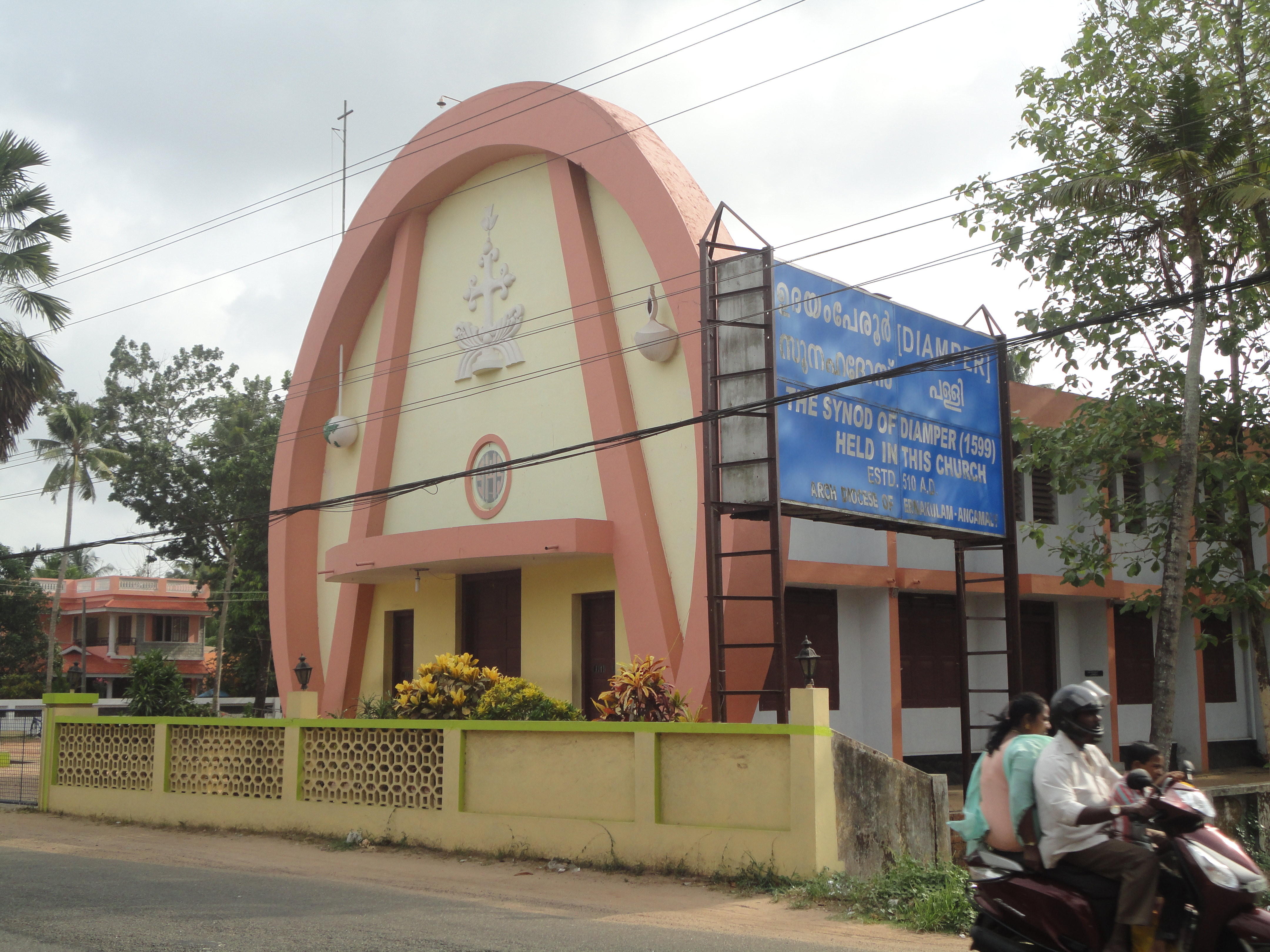 Udayamperooor Synod_of_Diamper